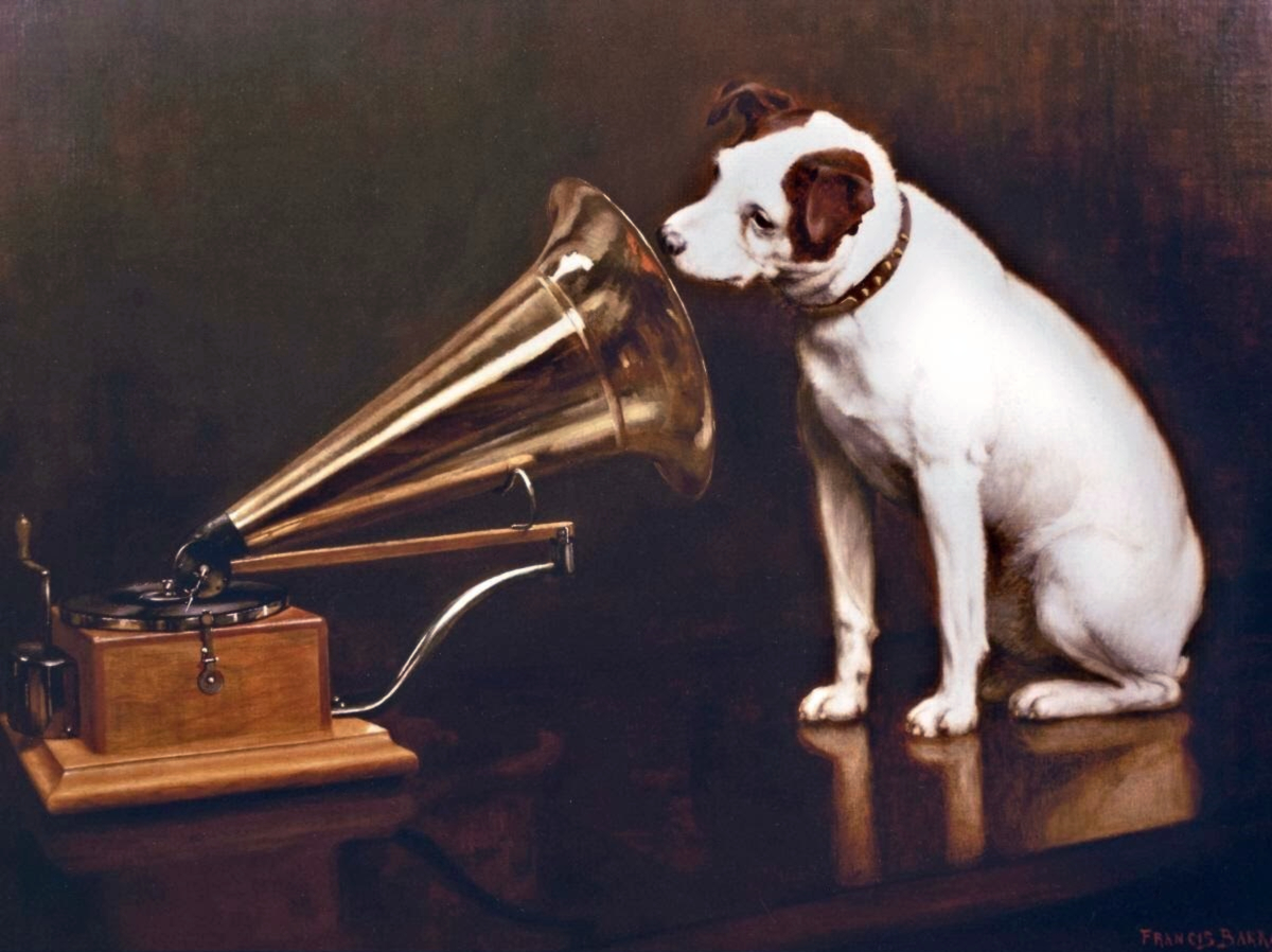 In England, artist Francis Barraud (1856-1924) painted his brother's dog Nipper listening to the horn of an early phonograph during the winter of 1898. Victor Talking Machine Company began using the symbol in their trademark, His Master's Voice, in 1900, and Nipper joined the RCA family in 1929.